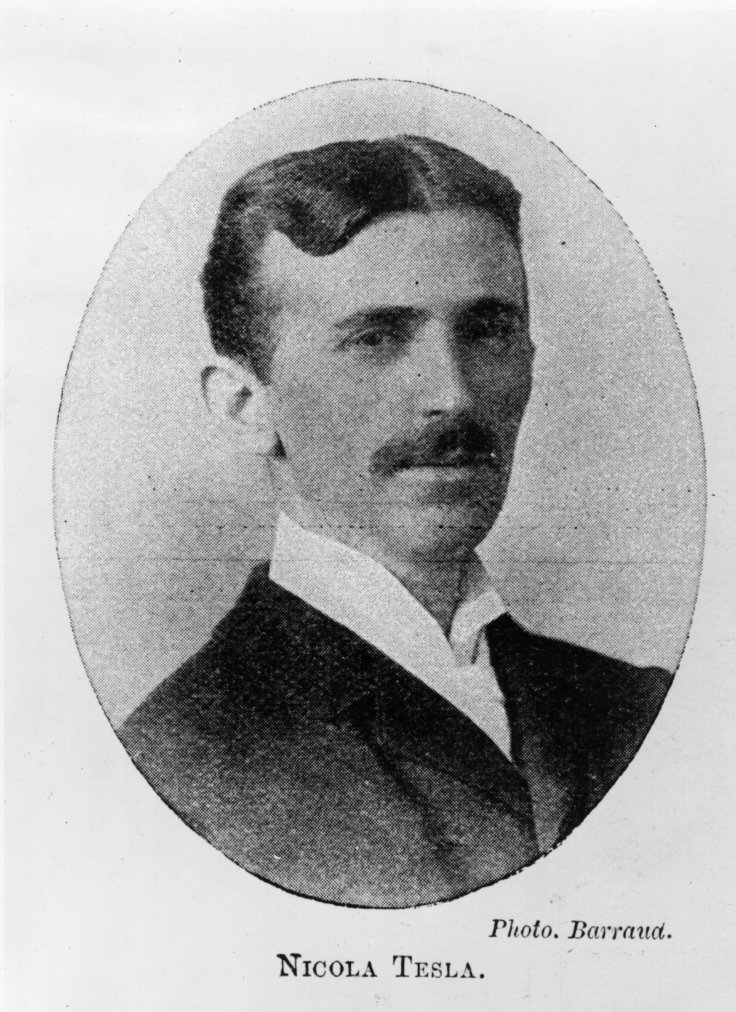 Nikola Tesla, photography by Herbert Rose Barraud.